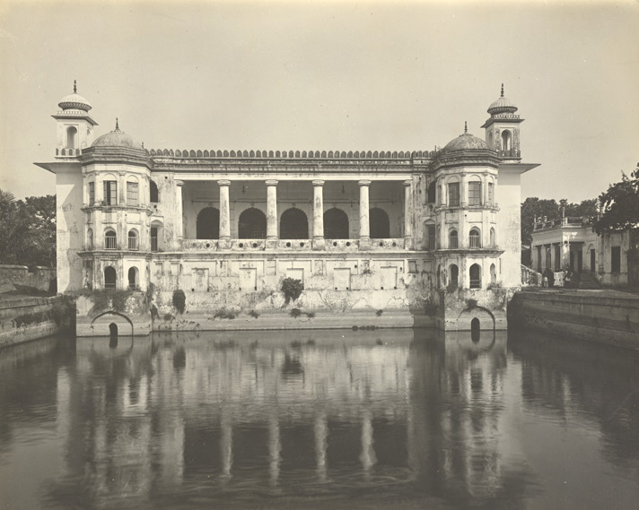 Photograph taken by Fritz Kapp in 1904 with a view of the Imambara Hussaini Dalan in Dacca (now Dhaka), overlooking the tank, part of an album of 30 prints from the Curzon Collection.